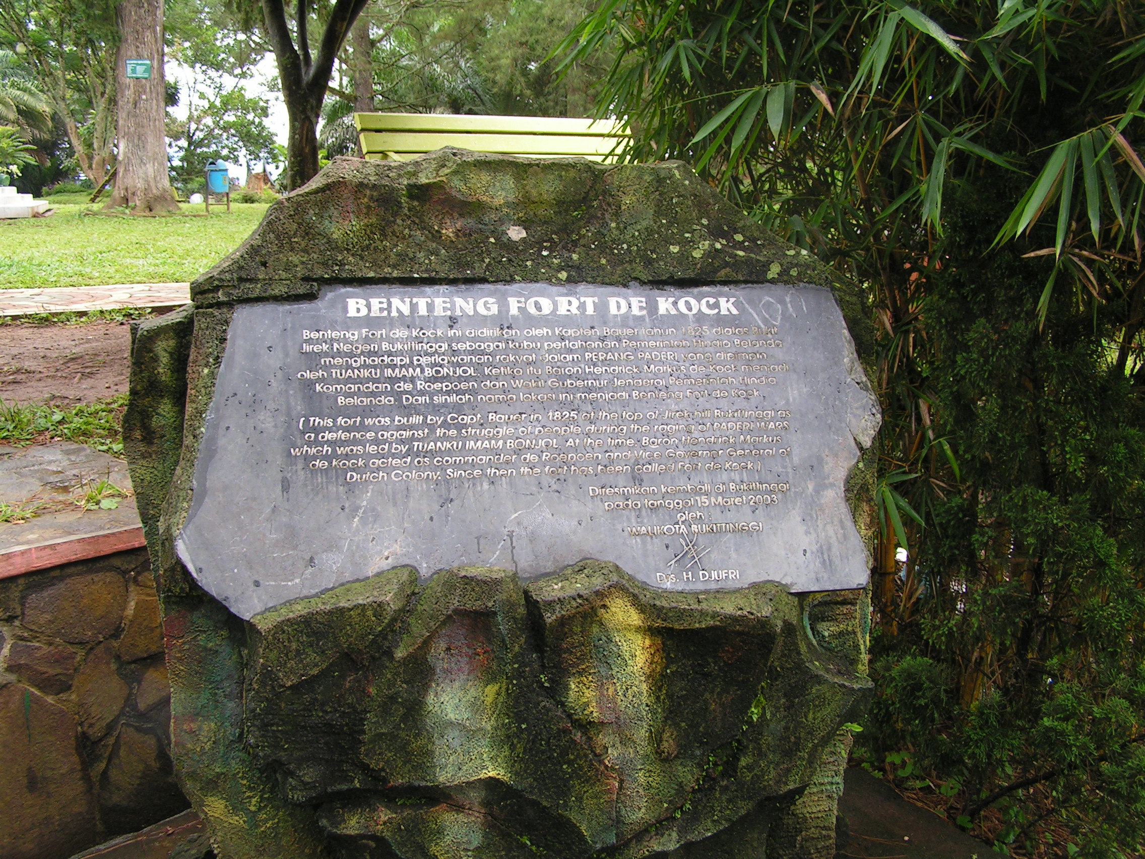 Memorial plate Fort the Kock at Bukittinggi, Indonesia